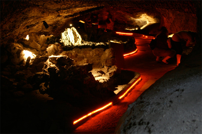 Illuminated lava tube at Lava_Beds_National_Monument ,California